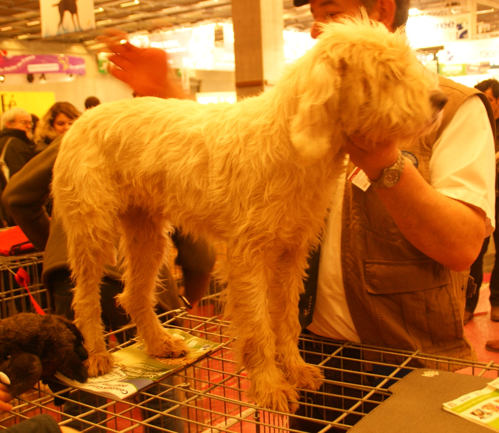 Medium Vendéen Griffon, Briquet Griffon Vendéen.